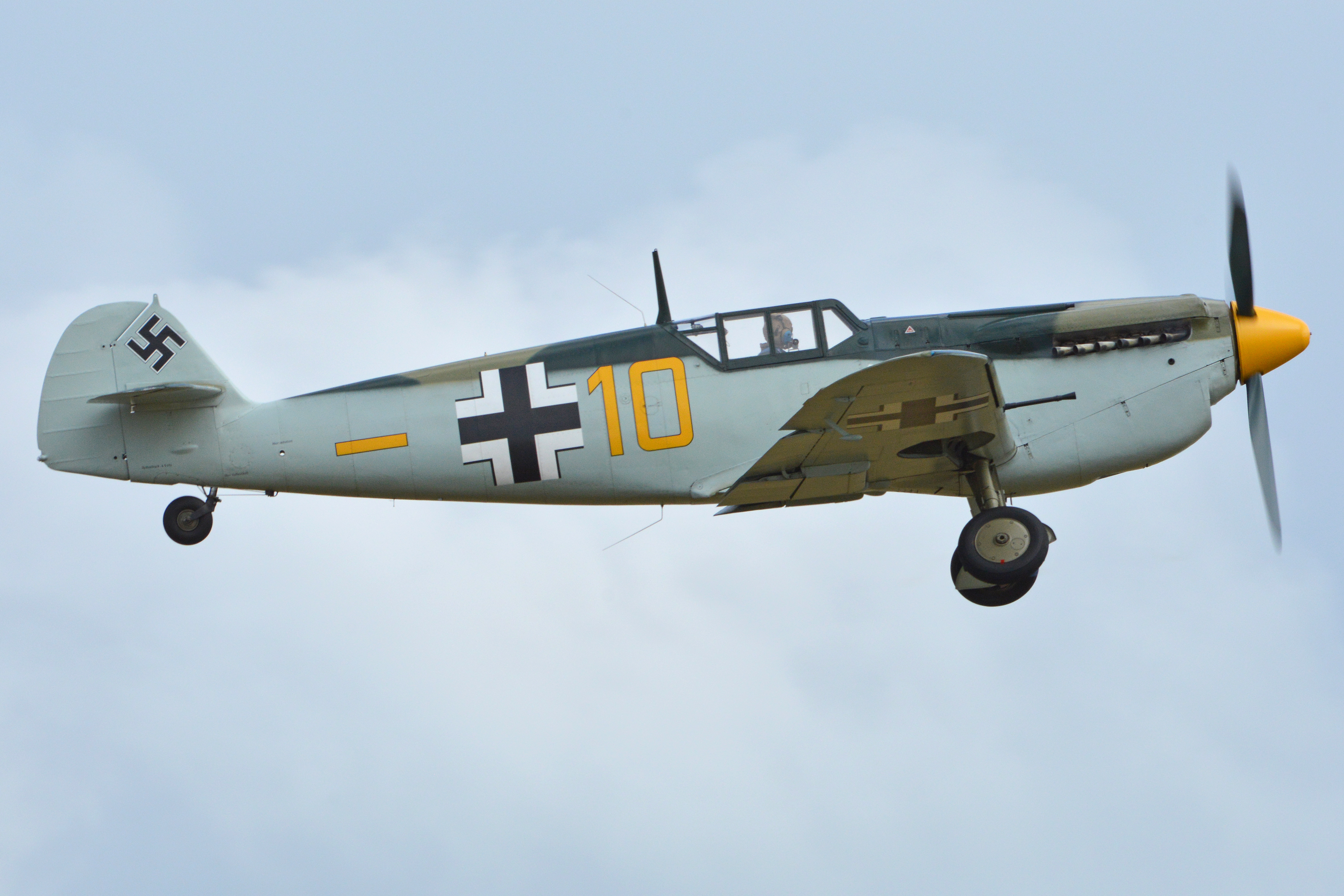 c/n 172. Spanish Air Force serial ‘C.4K-102’. Hispano Buchon built post-war in Spain. Restored in original condition and still fitted with a Rolls-Royce Merlin engine, which is how they were built. Wears the colours it wore when involved in the production of 'The Battle of Britain' film, at Duxford in 1968, when it was registered as 'G-AWHK'. It is now Duxford based and is operated by ARCo. Getting airborne to take part in the 'Balbo' at the 2015 Flying Legends Airshow. Duxford, Cambridgeshire, UK. 12-7-2015